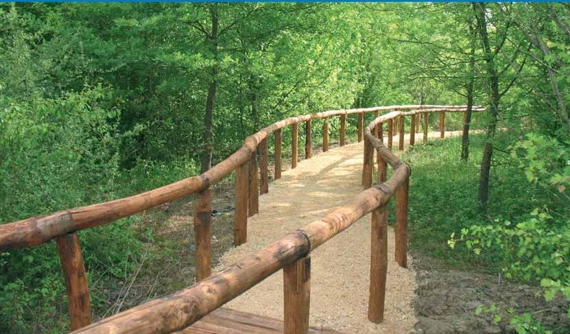 sentiero d'accesso